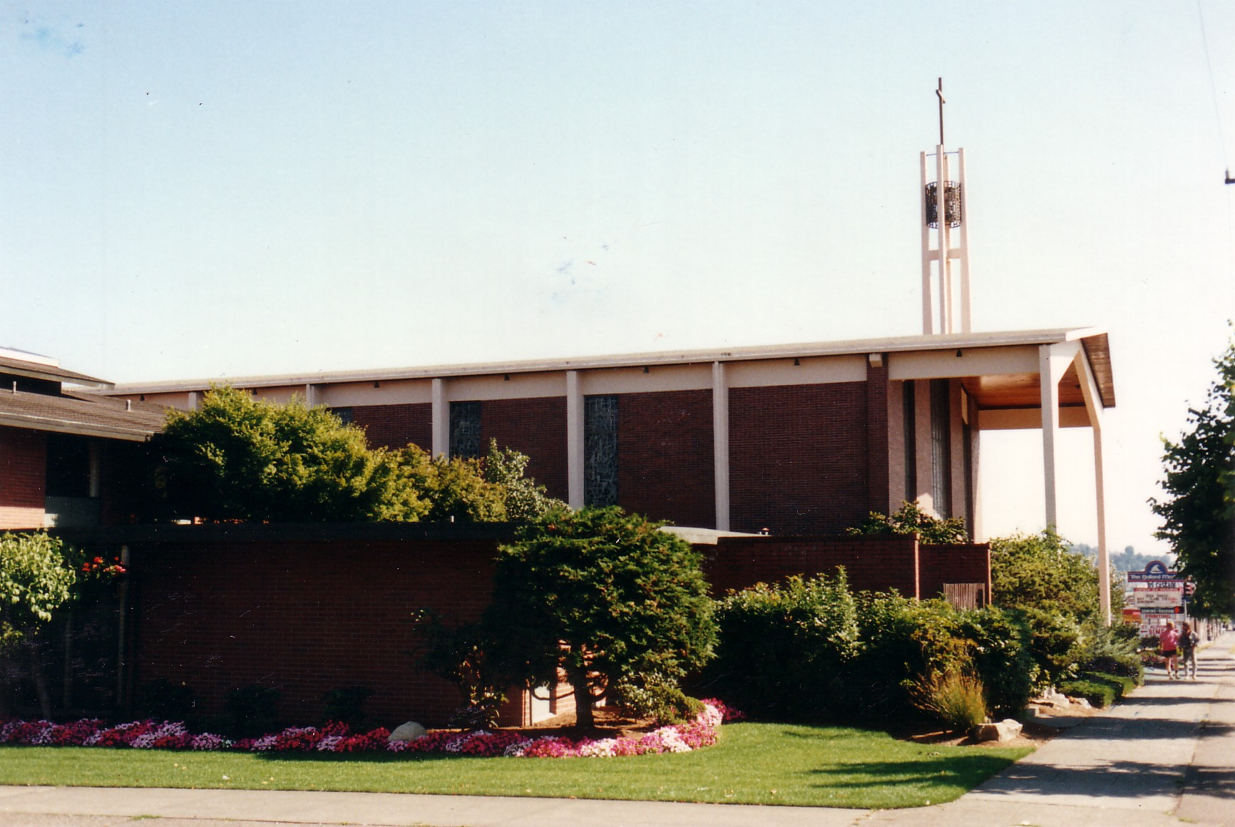 Saint Alphonsus Church R. C. in Seattle, Washington, USA